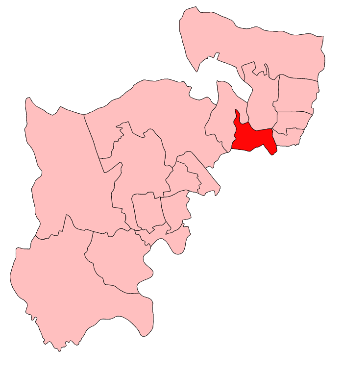 A map of Hornsey constituency within Middlesex, as it existed from 1918 to 1950.